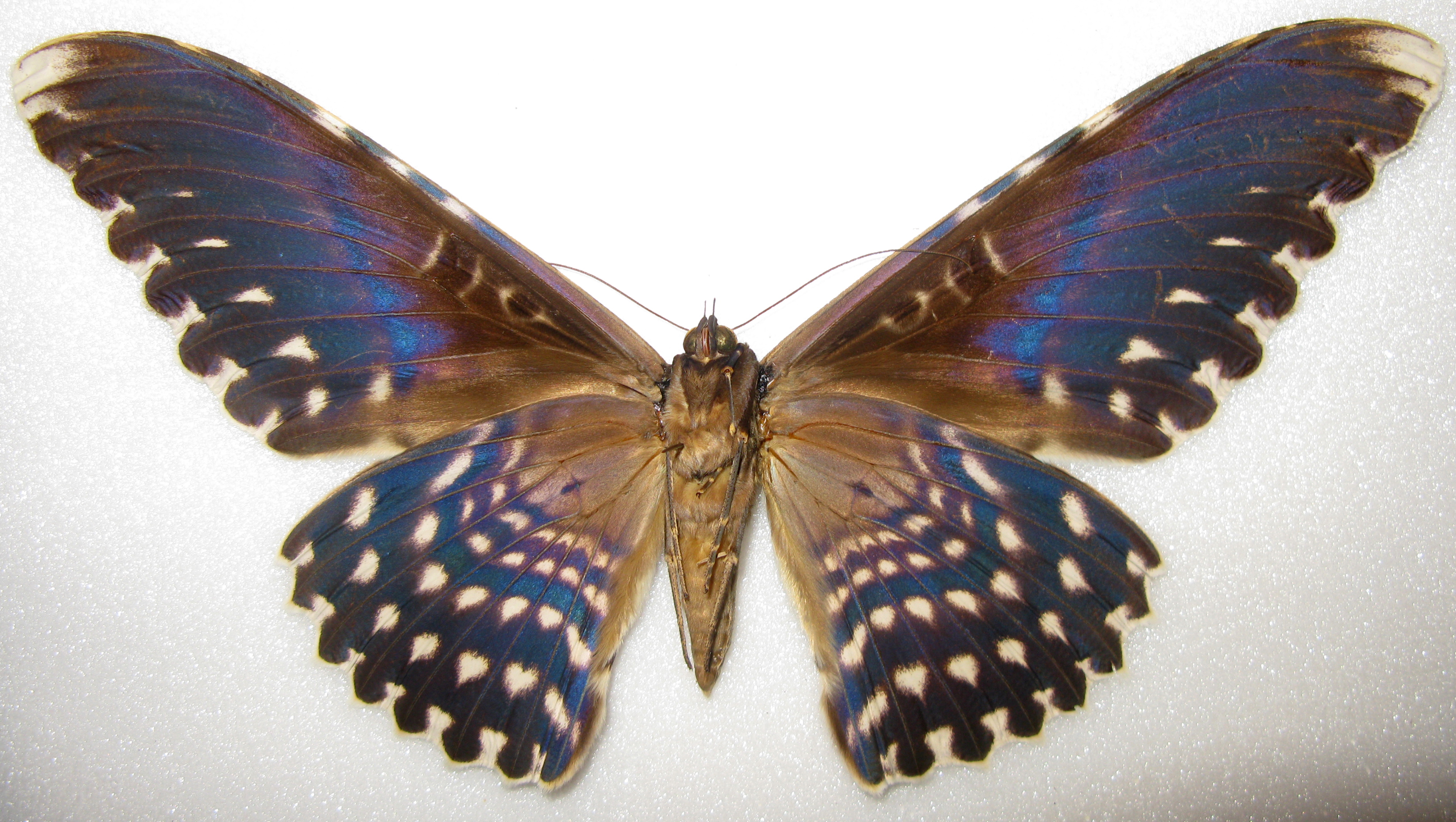 Thysania agrippina low side of wings